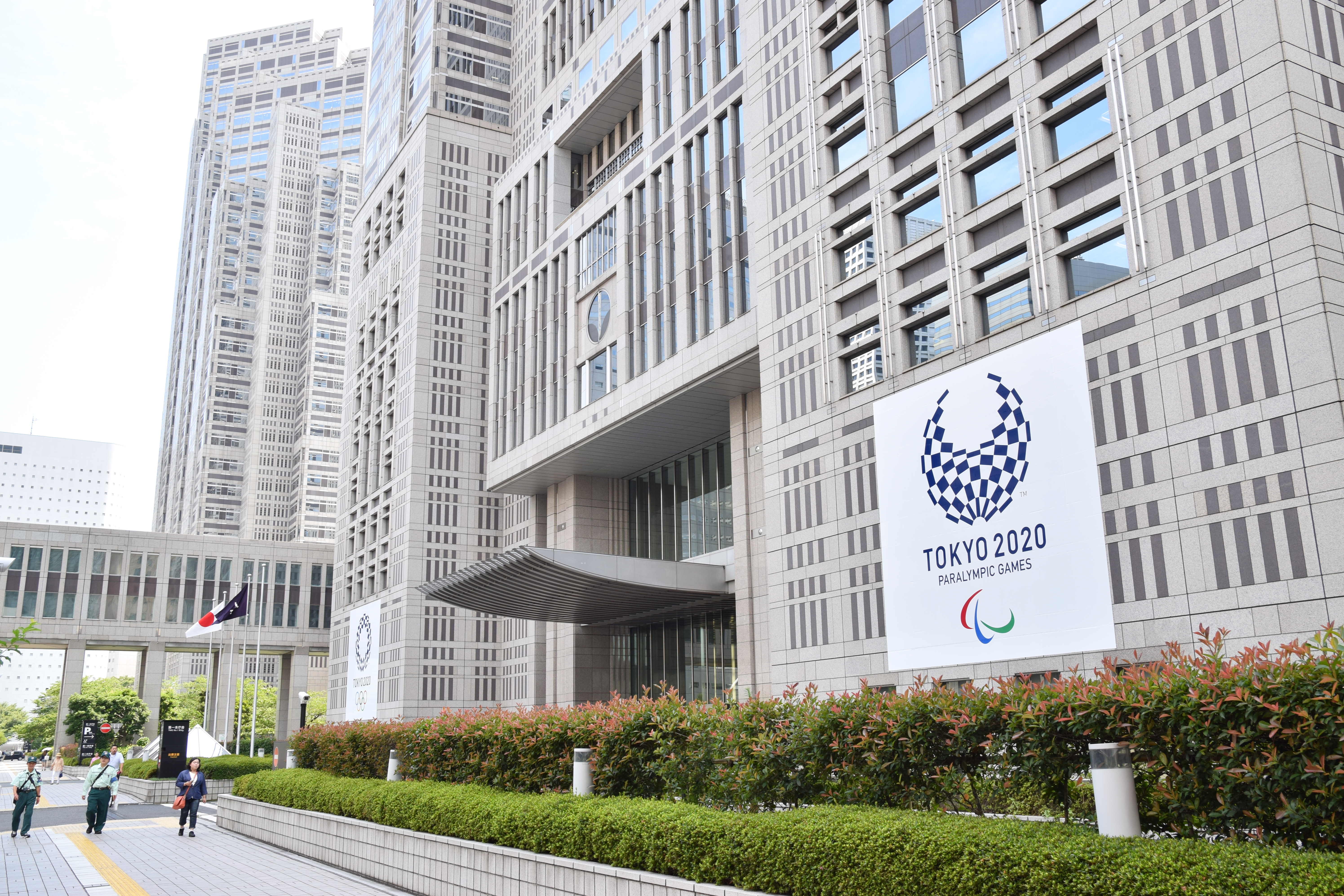 Tokyo Metropolitan Government Building